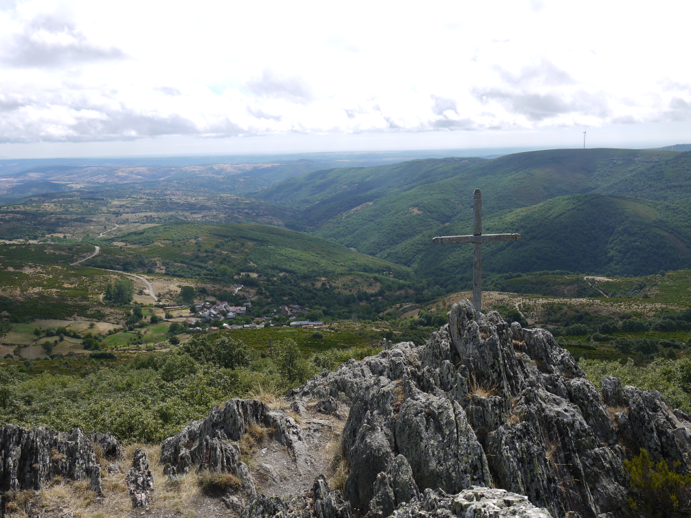 View from Cueto Rosales (Riello, León, Spain)